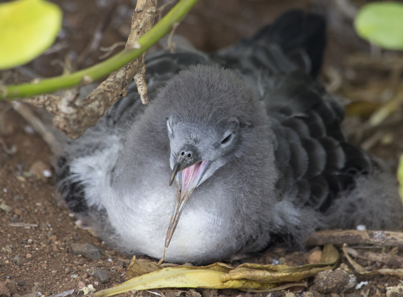 Taken at Kilaeau, HI.